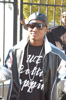 Yung Joc at the BET Hip Hop Awards in Atlanta. October 14, 2007. Photo by Travis Hudgons/PictureAtlanta.Net